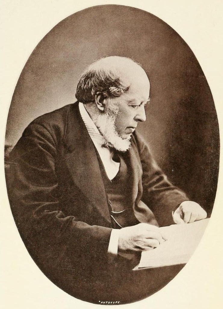 Photograph of Thomas Sopwith (1803–1879), English civil engineer and geologist. From Benjamin Ward Richardson Thomas Sopwith: with excerpts from his diary of fifty-seven years (1891). Author: , Sir, 1828-1896; Sopwith, Thomas, 1803-1879